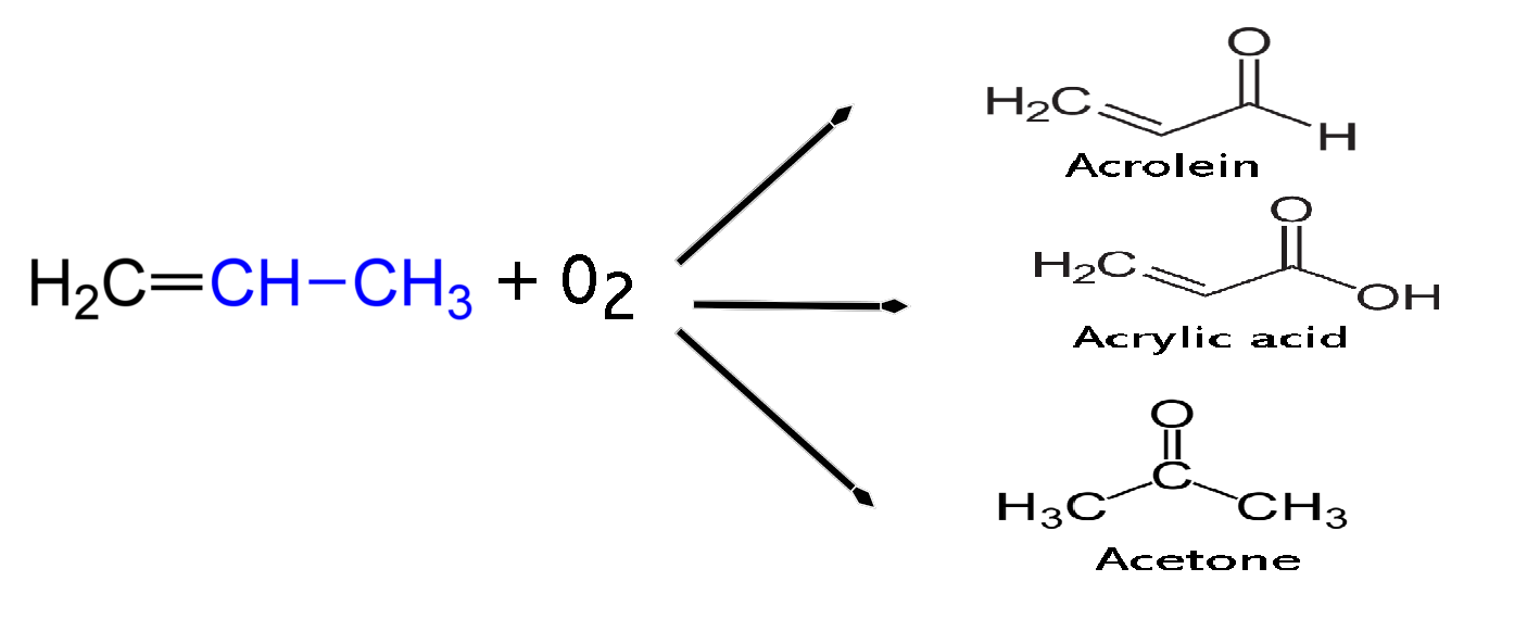 Oxygen propylene reactions